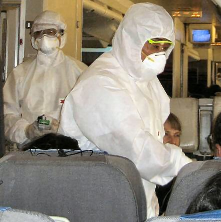 Chinese inspectors on an airplane, checking passengers for fevers (a symptom of swine flu). Taken in China after arrival, prior to exiting the plane.